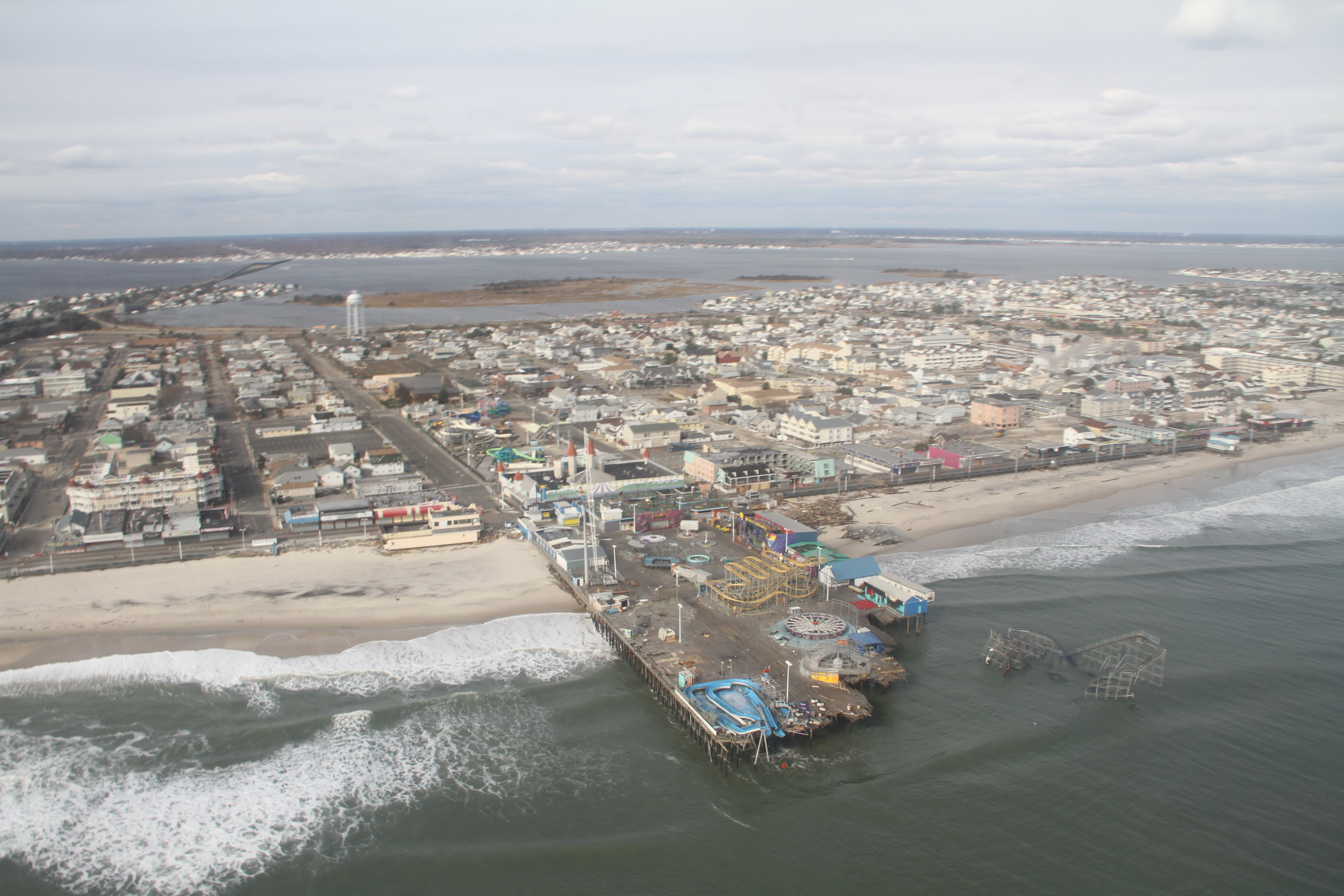 New Jersey’s Casino Pier at Seaside Heights, NJ, stands broken, with the Star Jet roller coaster now sitting in the ocean, as seen during a U.S. military helicopter flight over the New Jersey coast Nov. 1. The U.S. Army Corps of Engineers is working through FEMA with the State of New Jersey to assess and assist as requested. (U.S. Army photo by Justin Ward)